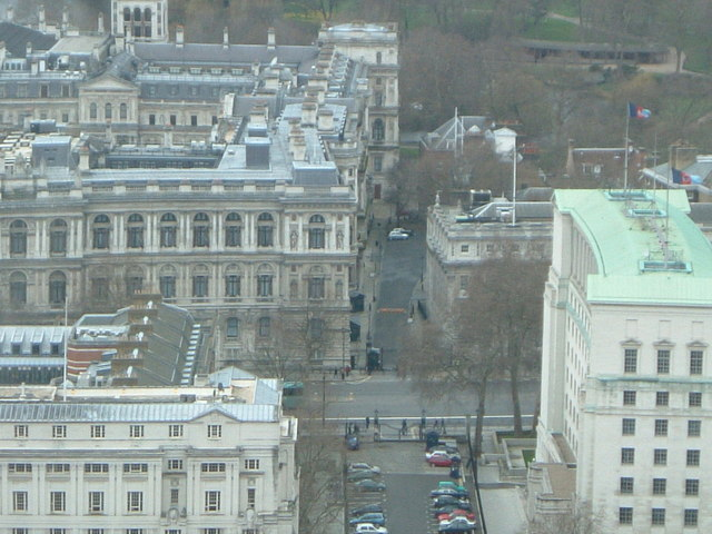 Downing Street London A different view of 10 Downing Street London. Taken from the London Eye